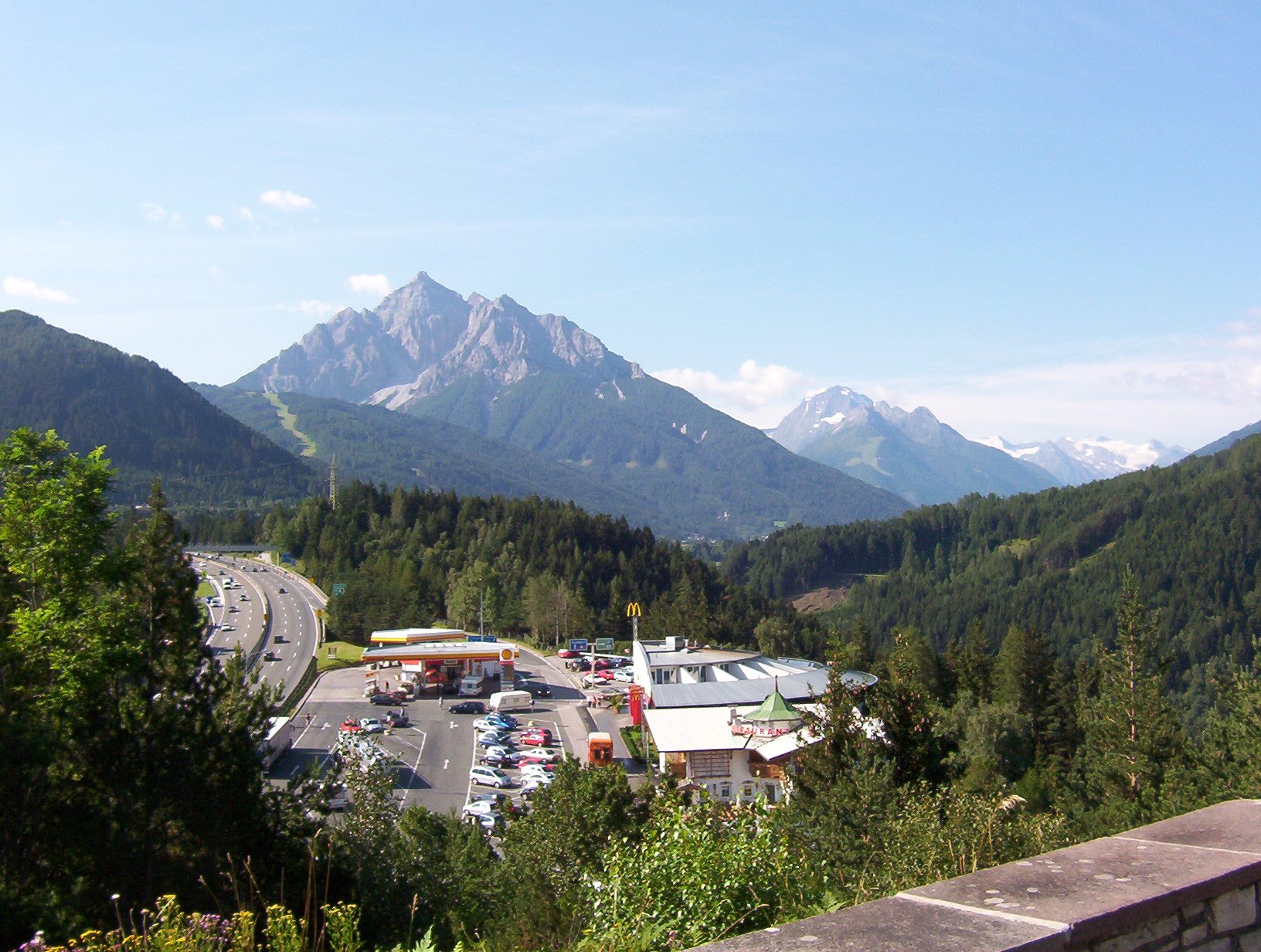 Brenner motorway with Stubai Alps